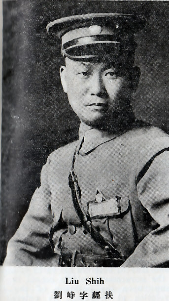 Liu Shi (Liu Shih) or Liu Zhi (Liu Chih), Jingfu (1892 - 1971)